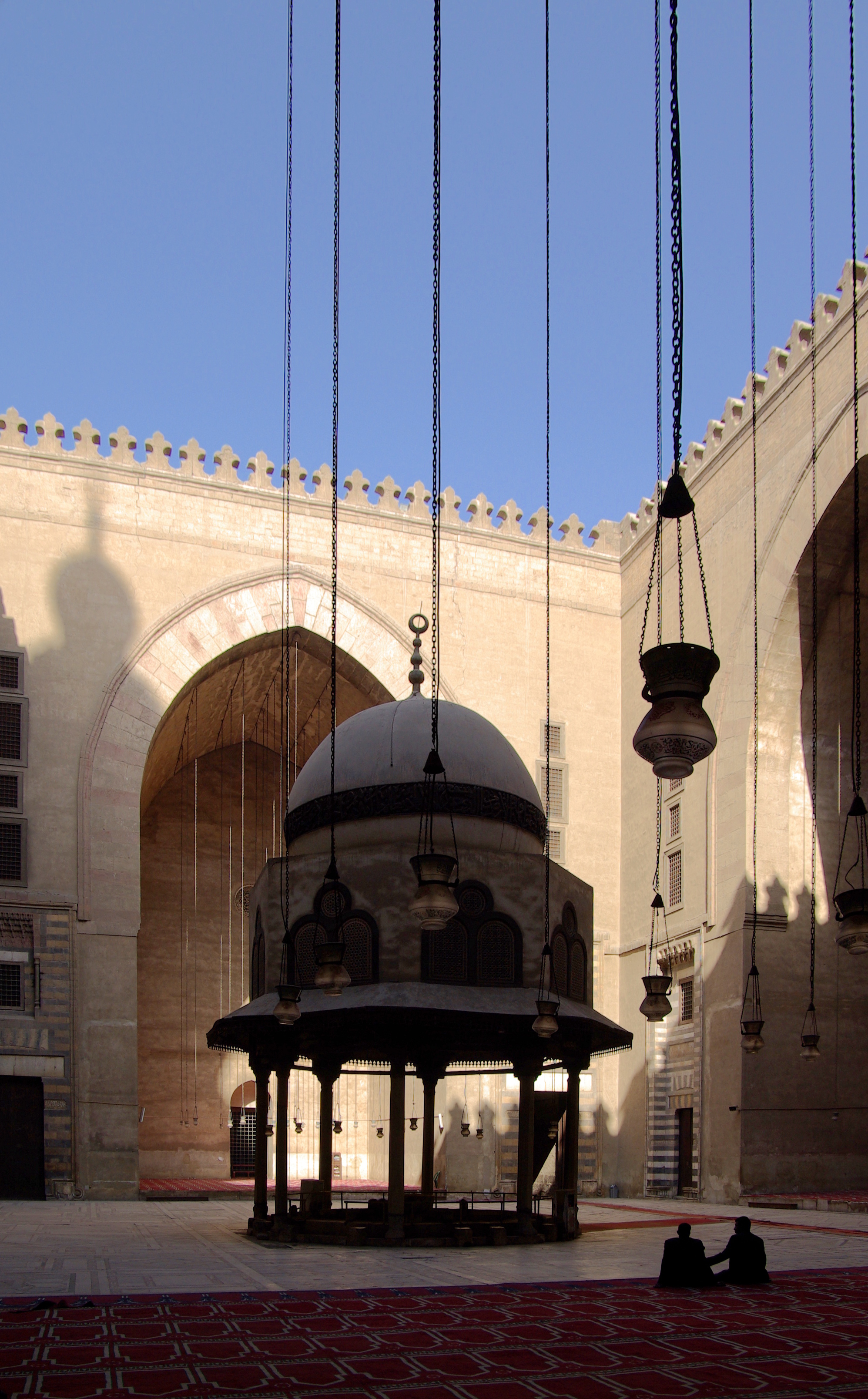 Cairo, Mosque-Madrassa of Sultan Hassan